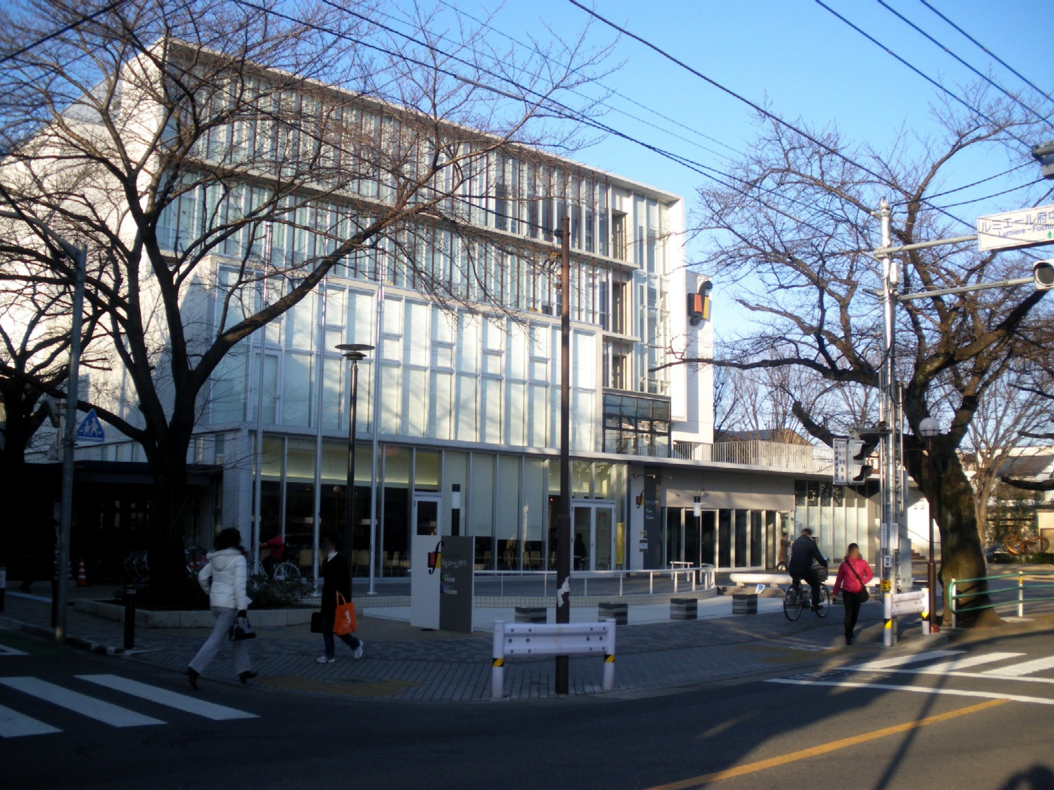 A photo of "Lumière Fuchu"(a civic hall in Fuchu city),Fuchucho,Fuchu city,Tokyo,Japan.